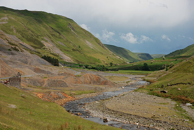 Cwm Ystwyth minescape